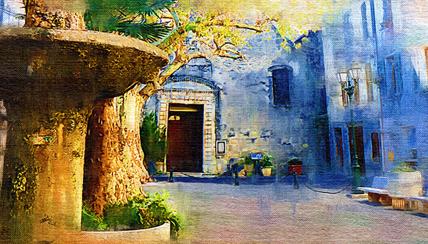 In front of the church, the fountain in Solliès-Toucas